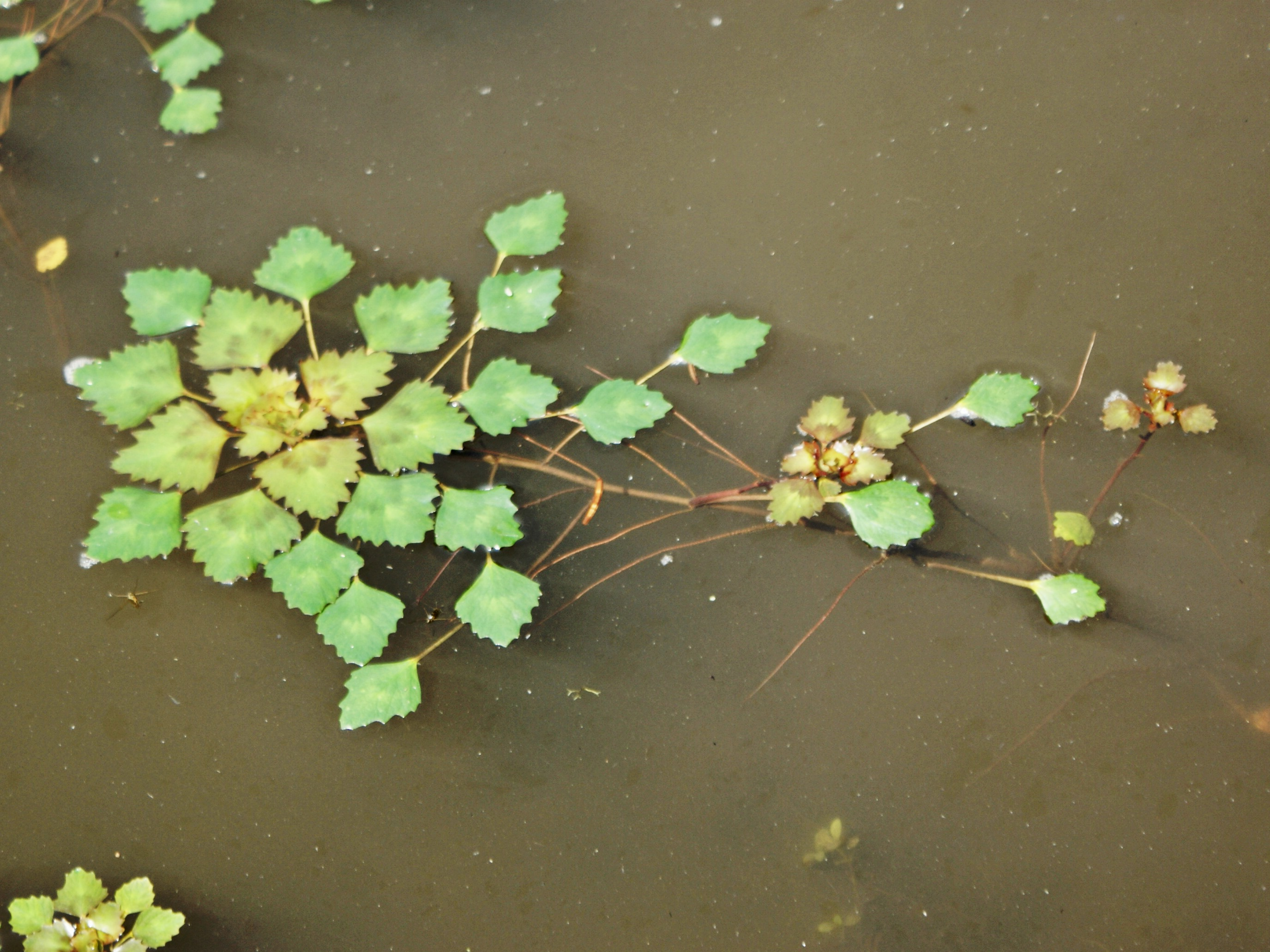 Trapa natans in the Arboretum in Glinna (NW Poland)